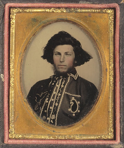 Bloody Bill in the early 1860s.